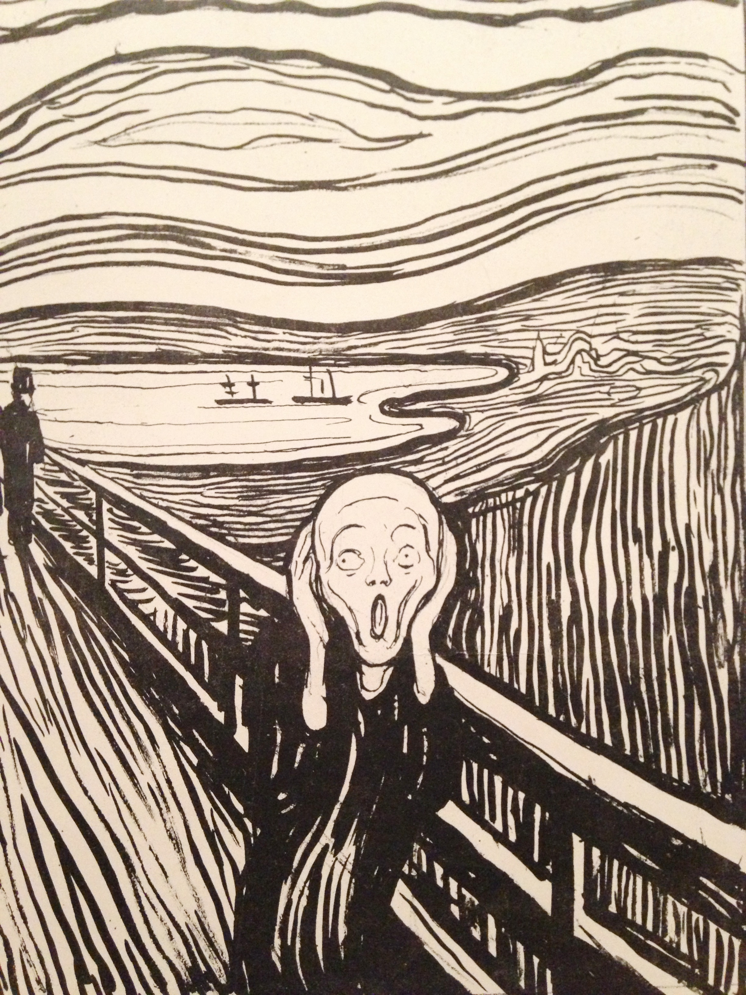 Lithograph